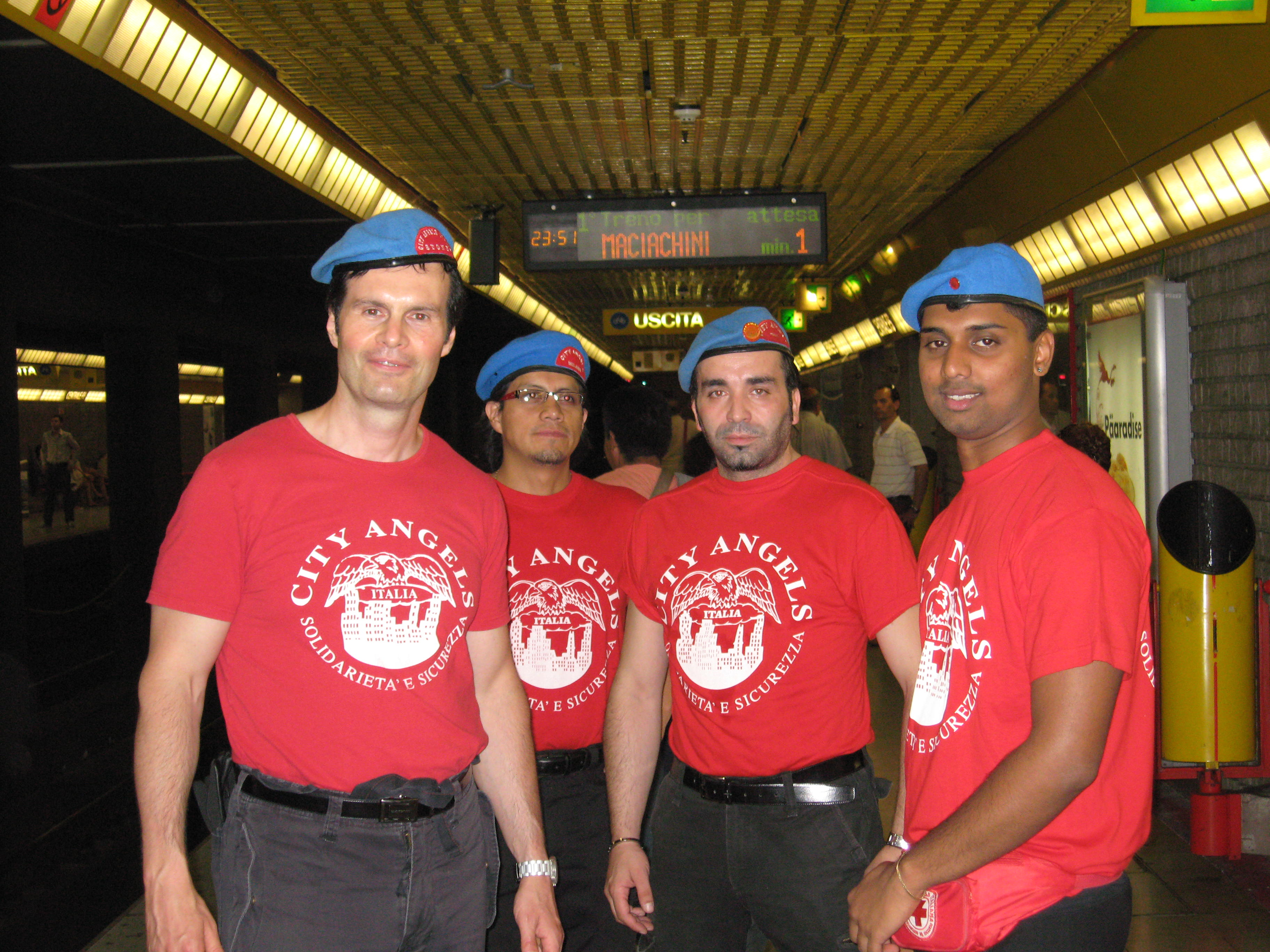 City Angels volunteers on patrol in Milan M3 subway line. On the far left is Mario Furlan, founder of City Angels in 1994.